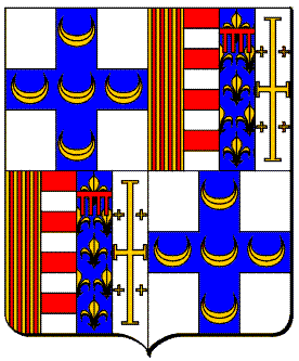 Coat of arms of Piccolomini - Pieri d'Aragona family